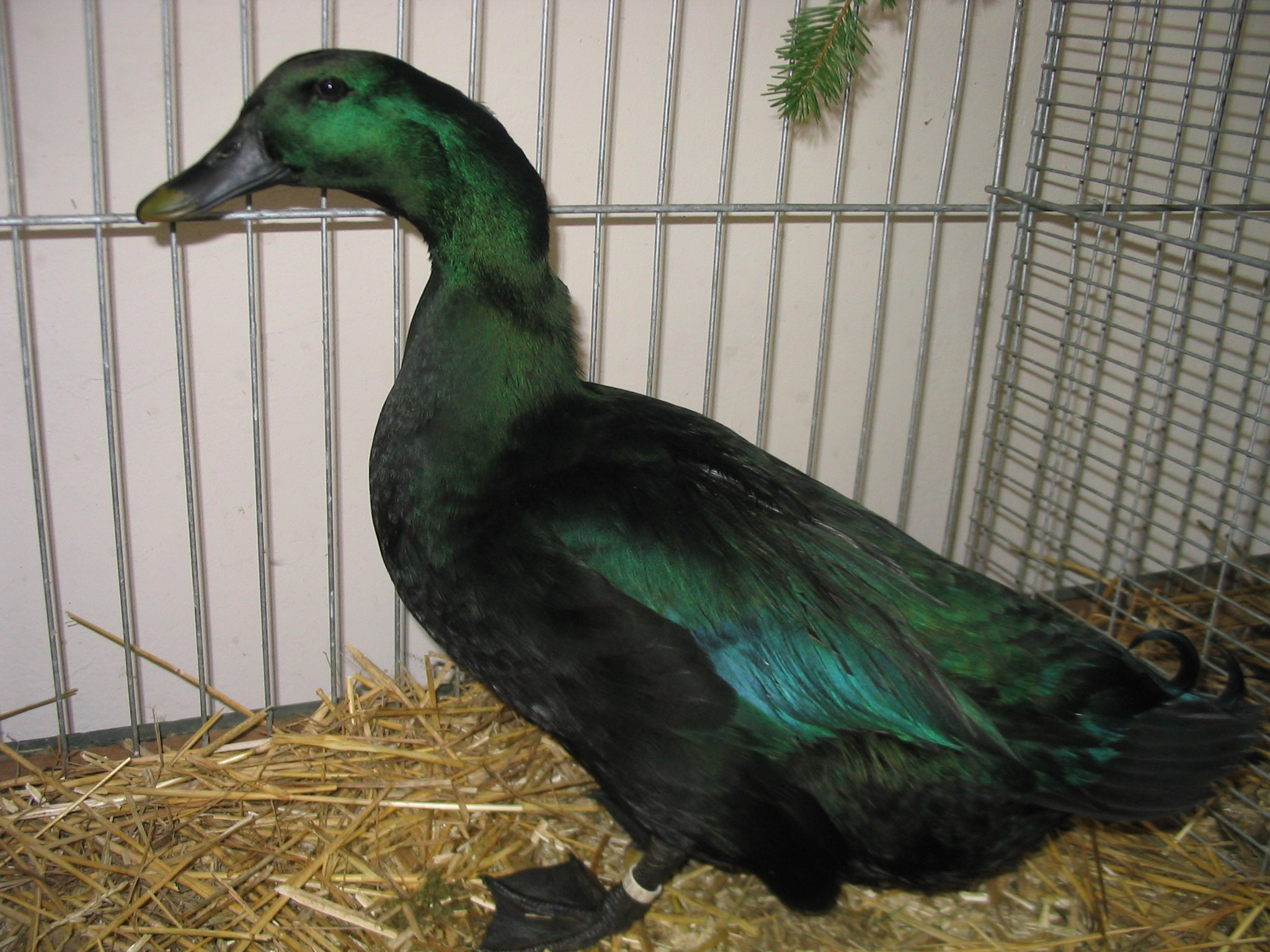 Anas platyrhynchos, Domestic Duck, Hausente, Rasse: Cajuga-Ente Fotografiert: 06.11.2004, Fotograf: Dr. Hagen Graebner